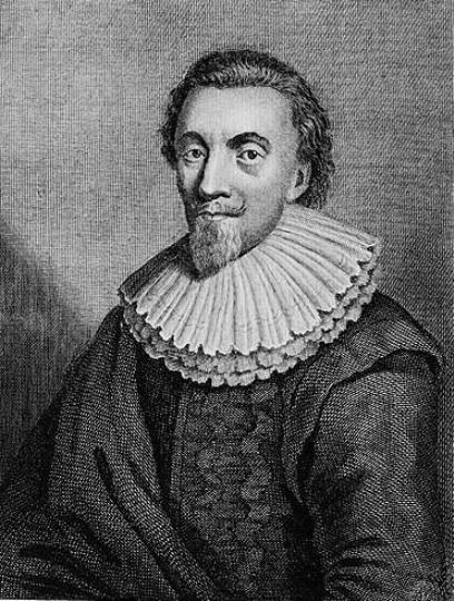 George Calvert, 1st Baron Baltimore (1579-1632).